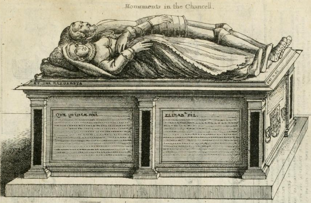 1656 drawing of chest tomb and effigies of Sir Richard Verney (1563-1630) of Compton Verney and of his wife Margaret Greville (d.1631), then in the chancel of the old Church of Compton Verney, demolished in the 18th century and moved to the present Georgian chapel beside the Georgian mansion house, where it survives today. Monument by Nicholas Stone, master-mason to King Charles I.